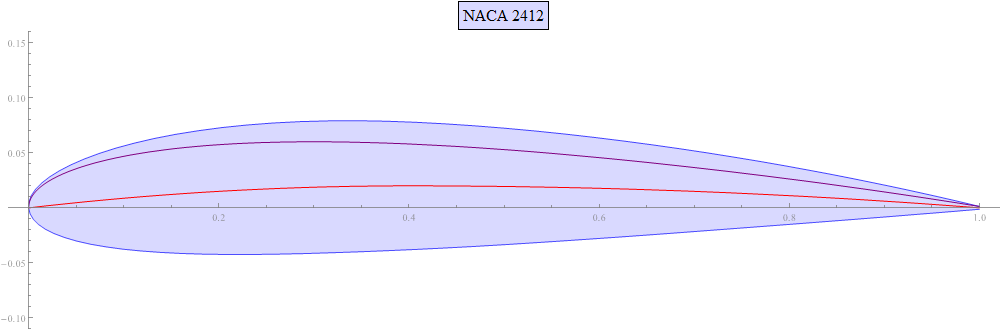 Plot of Naca 2412 generated with the formula, including camber line and thickness